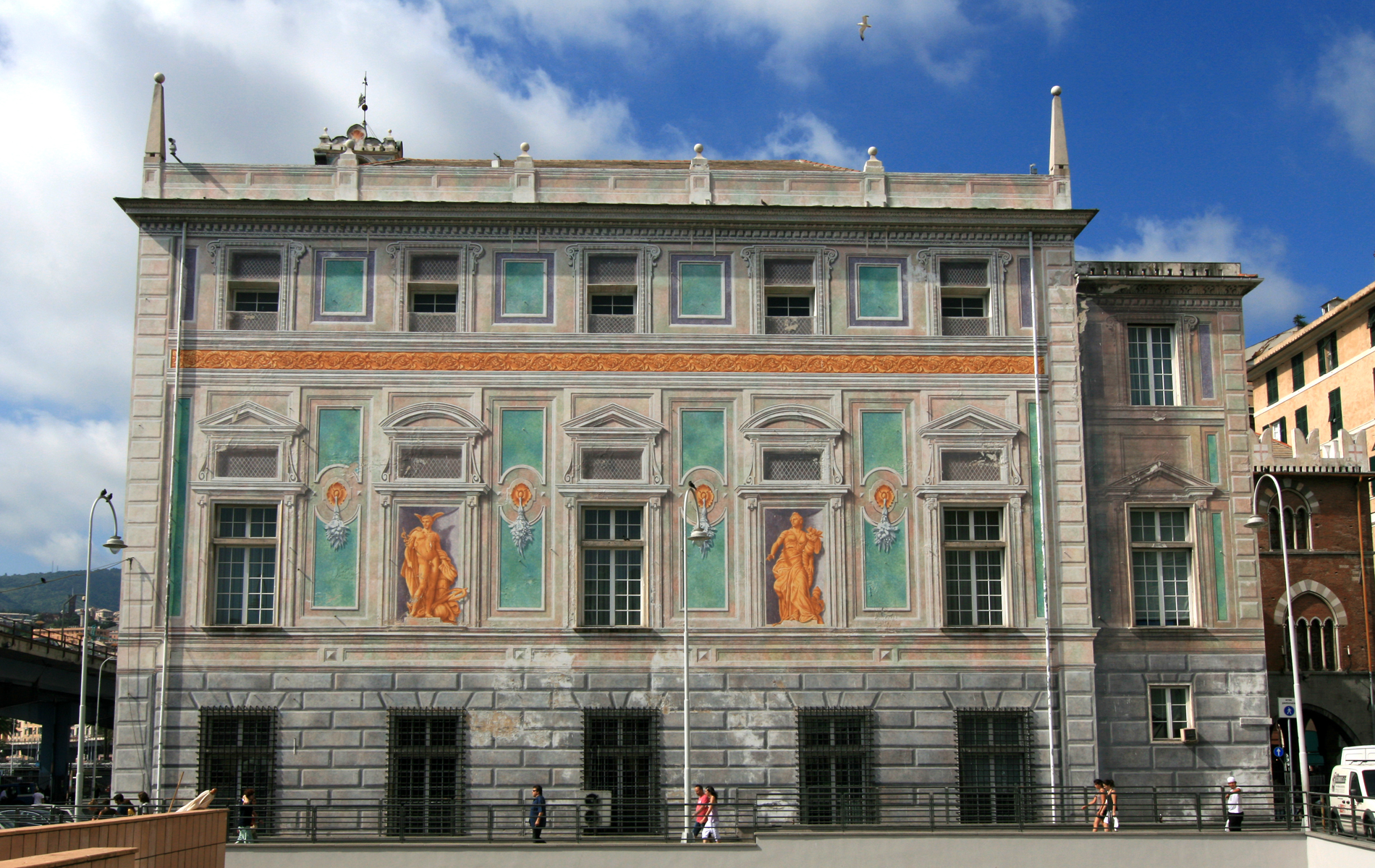 Palazzo di San Giorgio, Genova, Italy. South side.